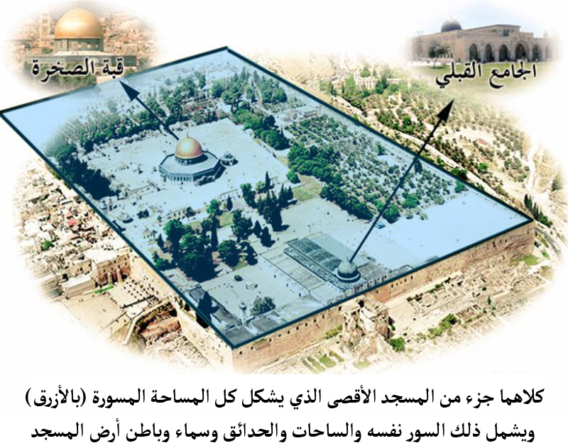 Al-Aqsa Mosque is all the area in blue.